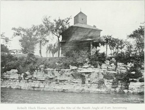 Rebuilt Block House, 1916, on the Site of the South Angle of Fort Armstrong